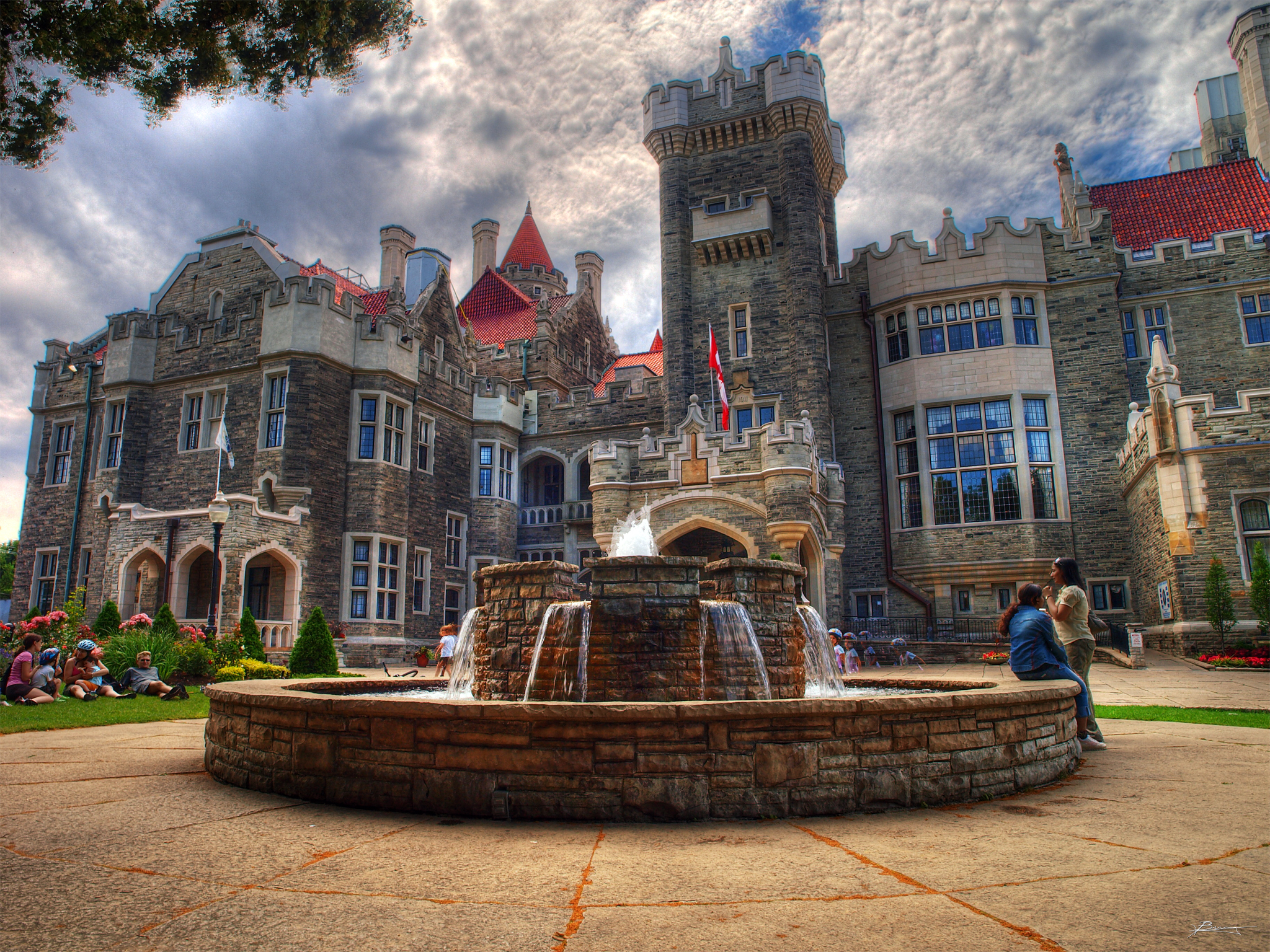 Photograph (5 exp hdr): The exterior of Casa Loma, 1 Austin Terrace, Toronto, Ontario, Canada.